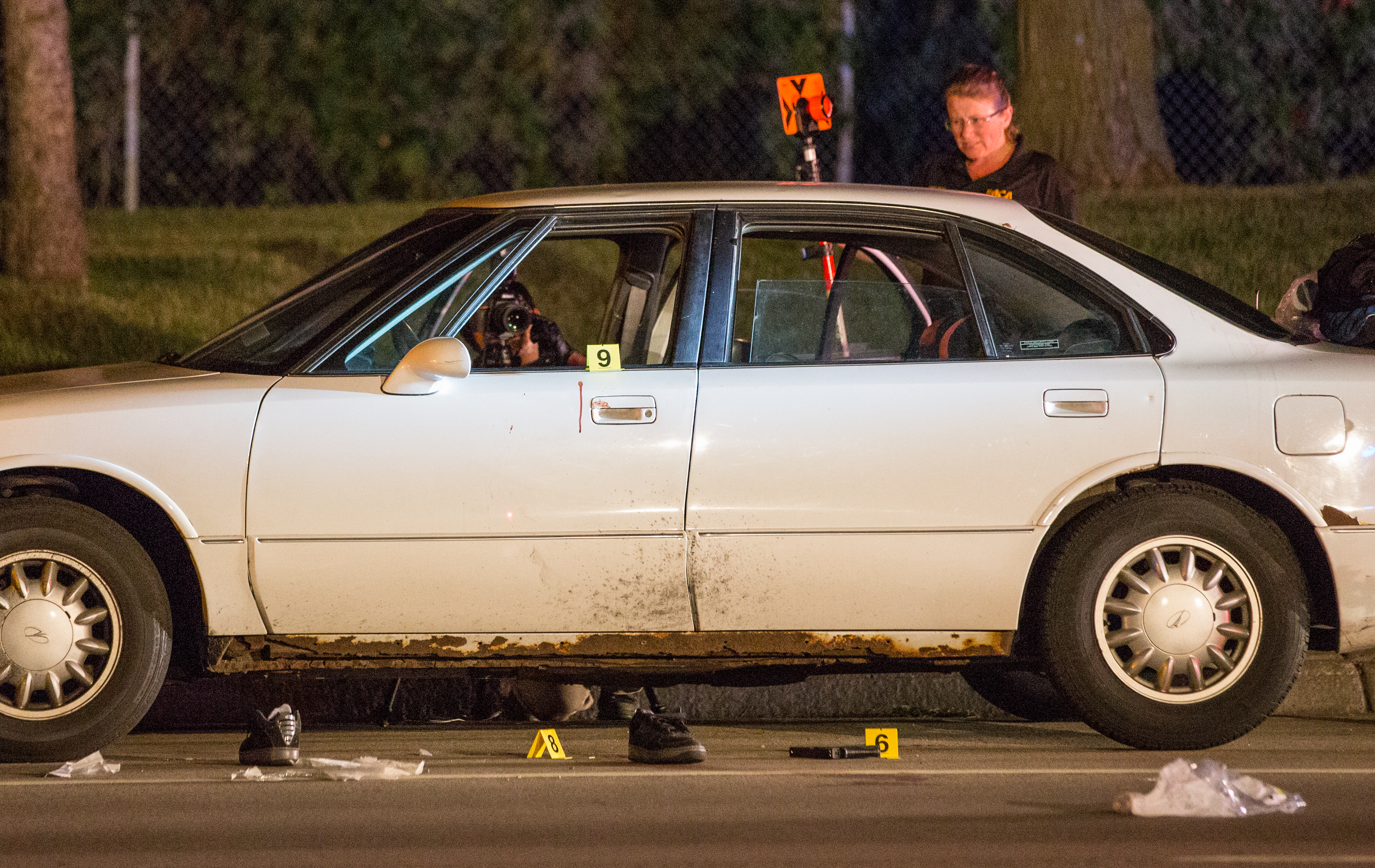 Shoes and a gun on the ground outside Philando Castile's blood-stained car as Minnesota Bureau of Criminal Apprehension (BCA) investigators take photographs of the scene of where a St. Anthony Police officer shot and killed 32-year-old Philando Castile in a car near Larpenteur Avenue and Fry Street in Falcon Heights, Minnesota, on July 6, 2016.